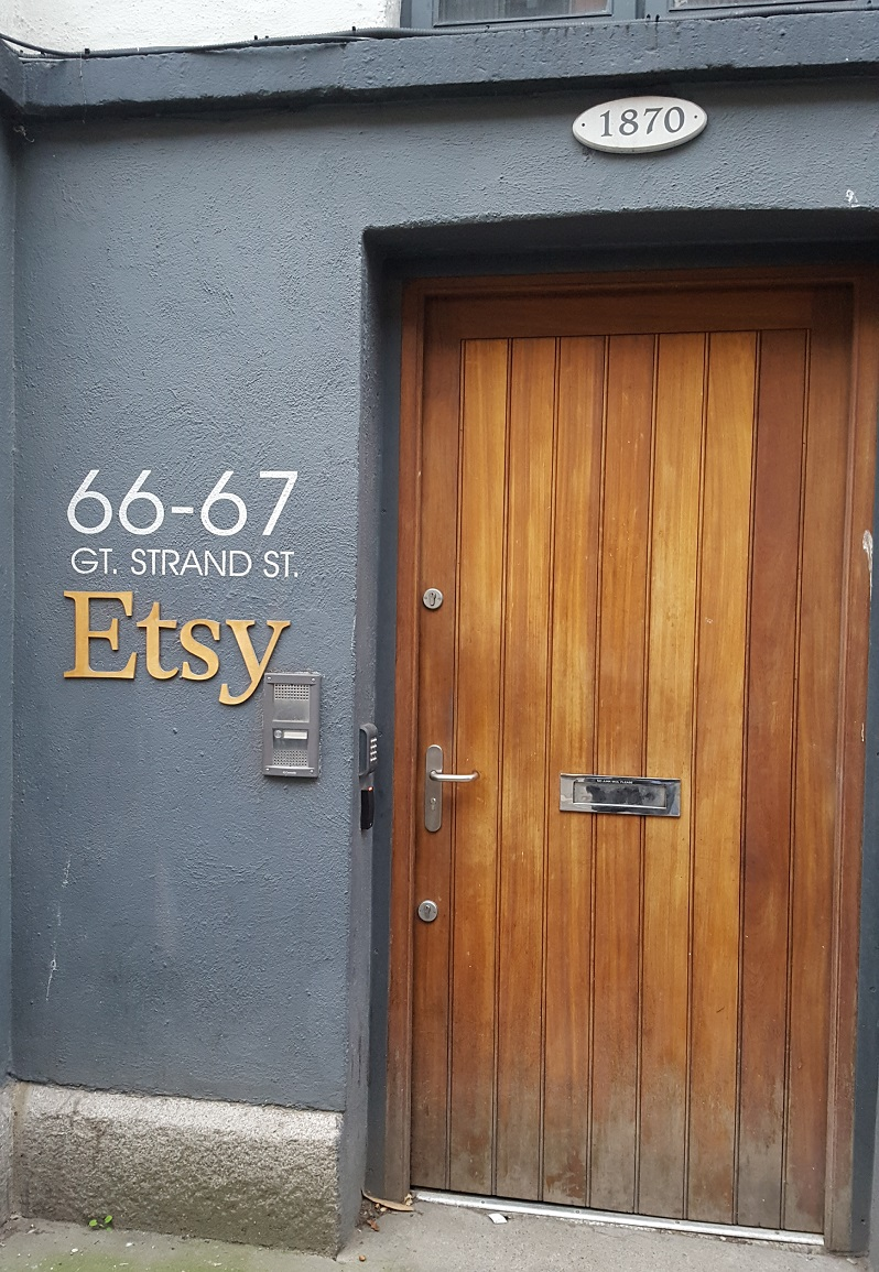 Etsy is an American e-commerce website focused on handmade or vintage items and craft supplies.